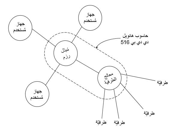 The national physical laboratory network diagram.